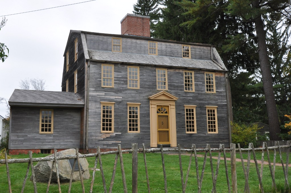 Tate House, Portland, Maine. Front view.